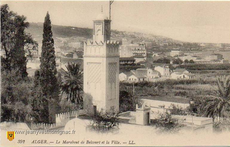 Mausolée Sidi M'Hamed à Alger (fin XIXe / début XXe siècle)